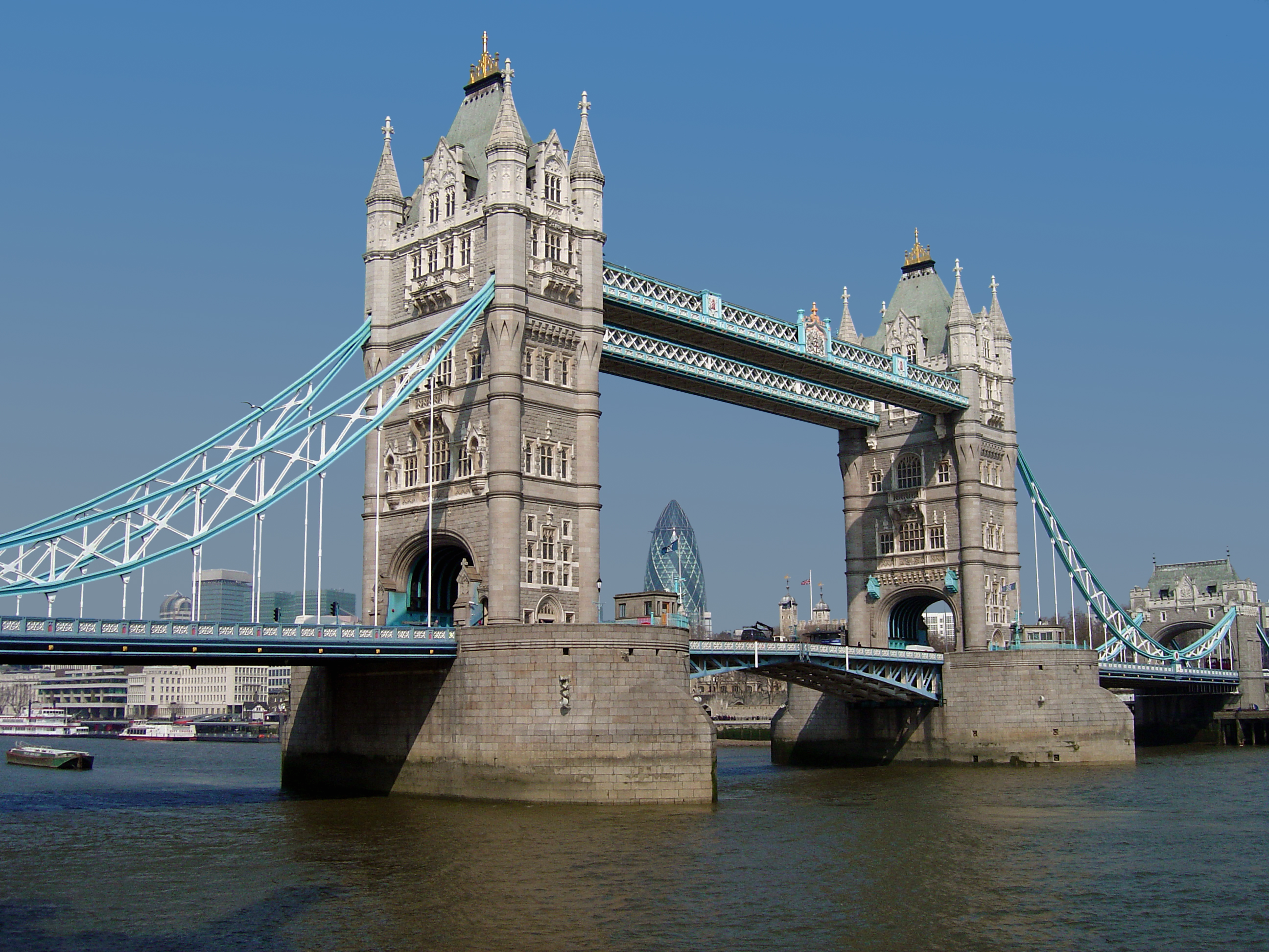 Tower Bridge in London